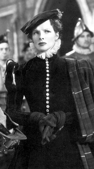 Cropped section of a publicity still for the 1936 film Mary of Scotland, featuring Katharine Hepburn. Such images were taken on set during filming, or as part of an organized photo-shoot, by a studio photographer. They were then disseminated to the media and the public to promote the film (see Film still). This is definitely a film still rather than a screenshot, as the quality is too high (compare, for instance, with this screenshot from the film). Public domain explanation The full photograph does not appear to contain the copyright symbol ©, the word "Copyright", or the abbreviation "Copr.", as then required for copyright. If one looks at other film stills from Mary of Scotland where a stock code can be clearly seen, none of these include the copyright symbol ©, the word "Copyright", or the abbreviation "Copr.": [1] [2] [3] [4]. This suggests that no publicity images for the film were published with a copyright notice. By publishing a photograph without such a notice, under the terms of the 1909 Copyright Act (which was law until 1978) the image went into the public domain. If there is any chance that the photograph was copyrighted, under the terms of the 1909 Copyright Act it would have had to be renewed 28 years after publication. A search for copyright renewal records of 1964 ([5], [6]) reveal no trace that this occurred. Film industry author Gerald Mast has written: "According to the old copyright act, such production stills were not automatically copyrighted as part of the film and required separate copyrights as photographic stills ... Most studios have never bothered to copyright these stills because they were happy to see them pass into the public domain, to be used by as many people in as many publications as possible." (Film Study and the Copyright Law (1989) p. 87.)